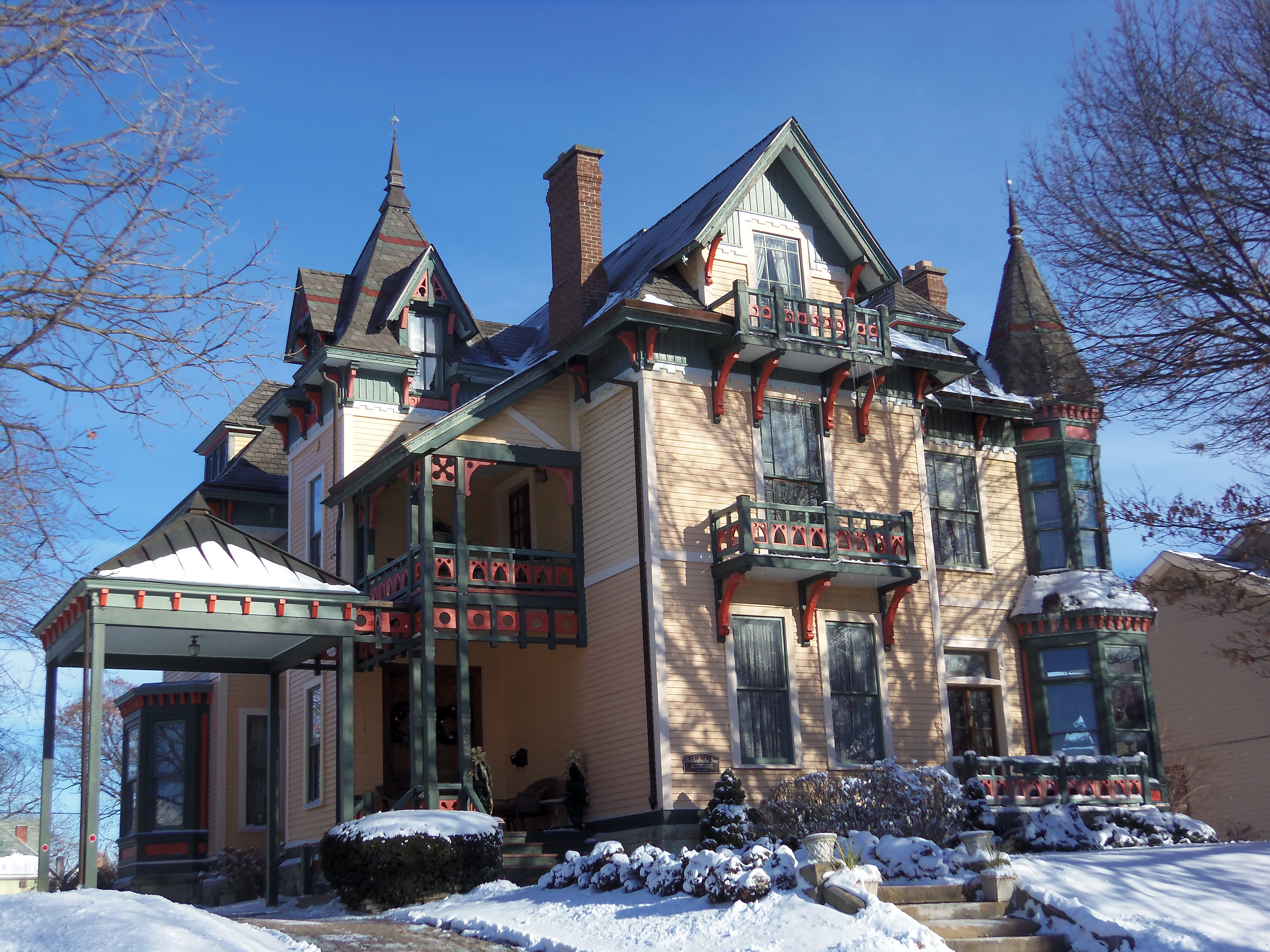 The Charles Beiderbecke House is located on West Seventh Street in Davenport, Iowa. It is a part of the Hamburg Historic District on the National Register of Historic Places.